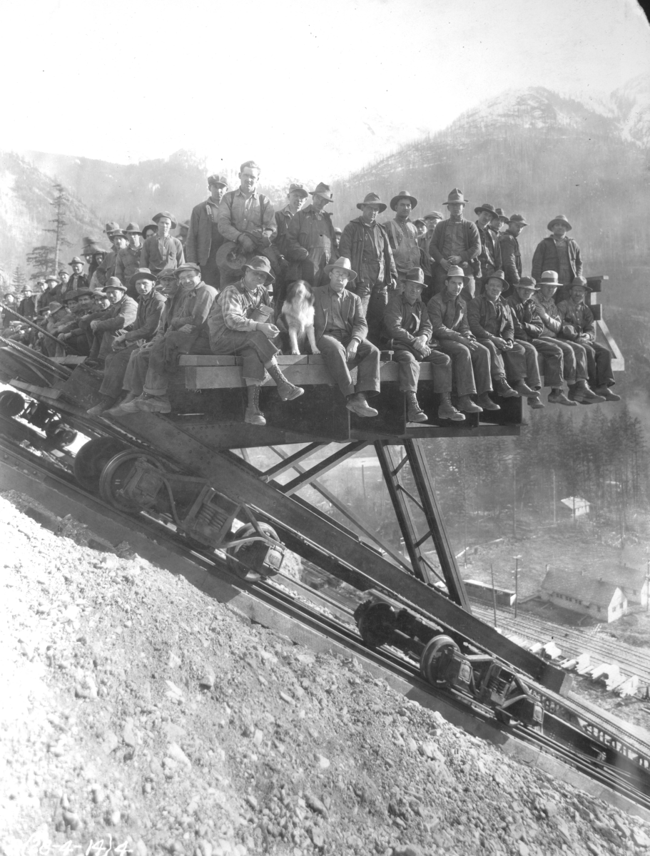 Construction of the Diablo Dam, North Cascades National Park, Washington, USA. (Workers at Diablo Dam, 1928)